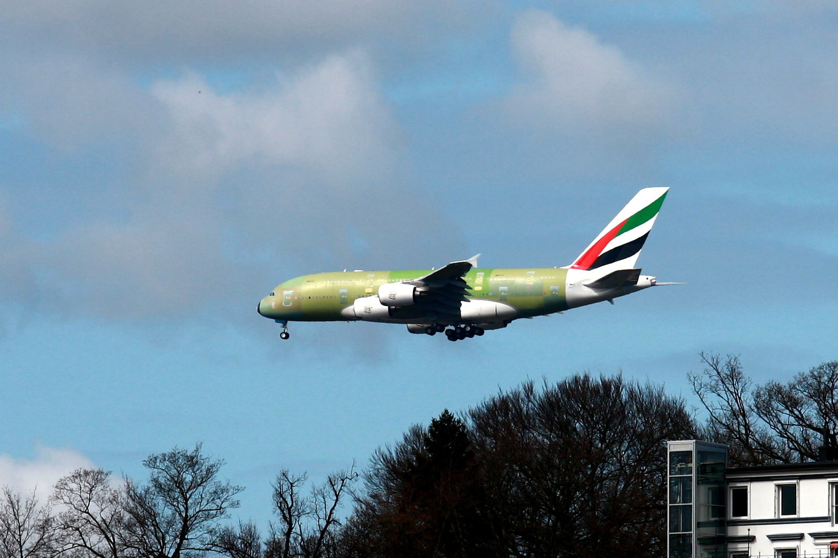 An Airbus A380, already flying the colors of Emirates Airlines on her tail, on final approach into Hamburg Finkenwerder Airport, where she will receive her final paint by Airbus Deutschland Ltd Other photographs in this sequence : File:2010-04-09 Emirates A380 EDHI.jpg File:2010-04-09 Emirates A380 EDHI 02.jpg